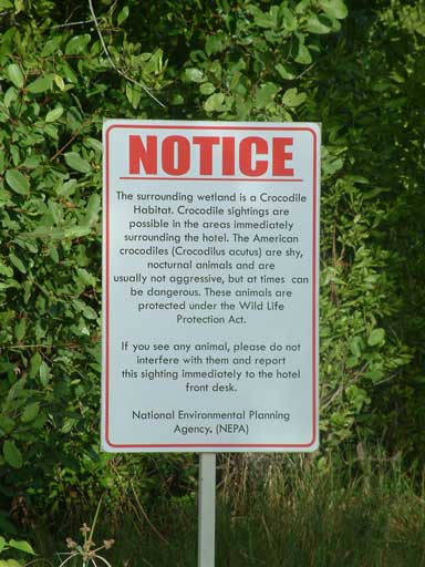 Crocodile warning notice in the salt marshes lining Whitehouse Beach in Jamaica. Photo by Op. Deo November 20,2005.